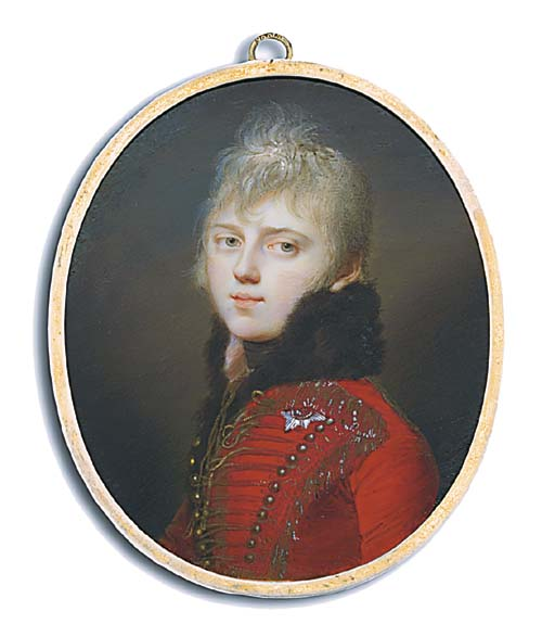 Duke Adam of Württemberg in red coat with gold-embroidered red facings, gold tassels and buttons, fur collar and dark cravat, wearing the breast-star of the Royal Württemberg Order of the Golden Eagle